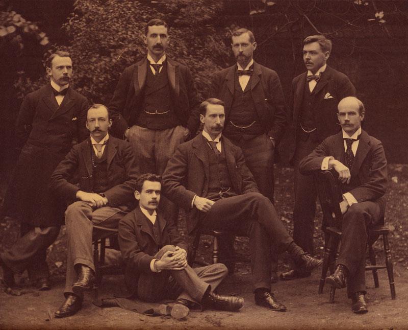 From left to right, back row: Mr R Turle Bakewell, Mr George Porter, Dr JW Campbell, V. Warren-Lowe. Front Row: Dr Frederick E Batten, Dr George F Still, Dr Thomas H Kellock, H.T. Maw.